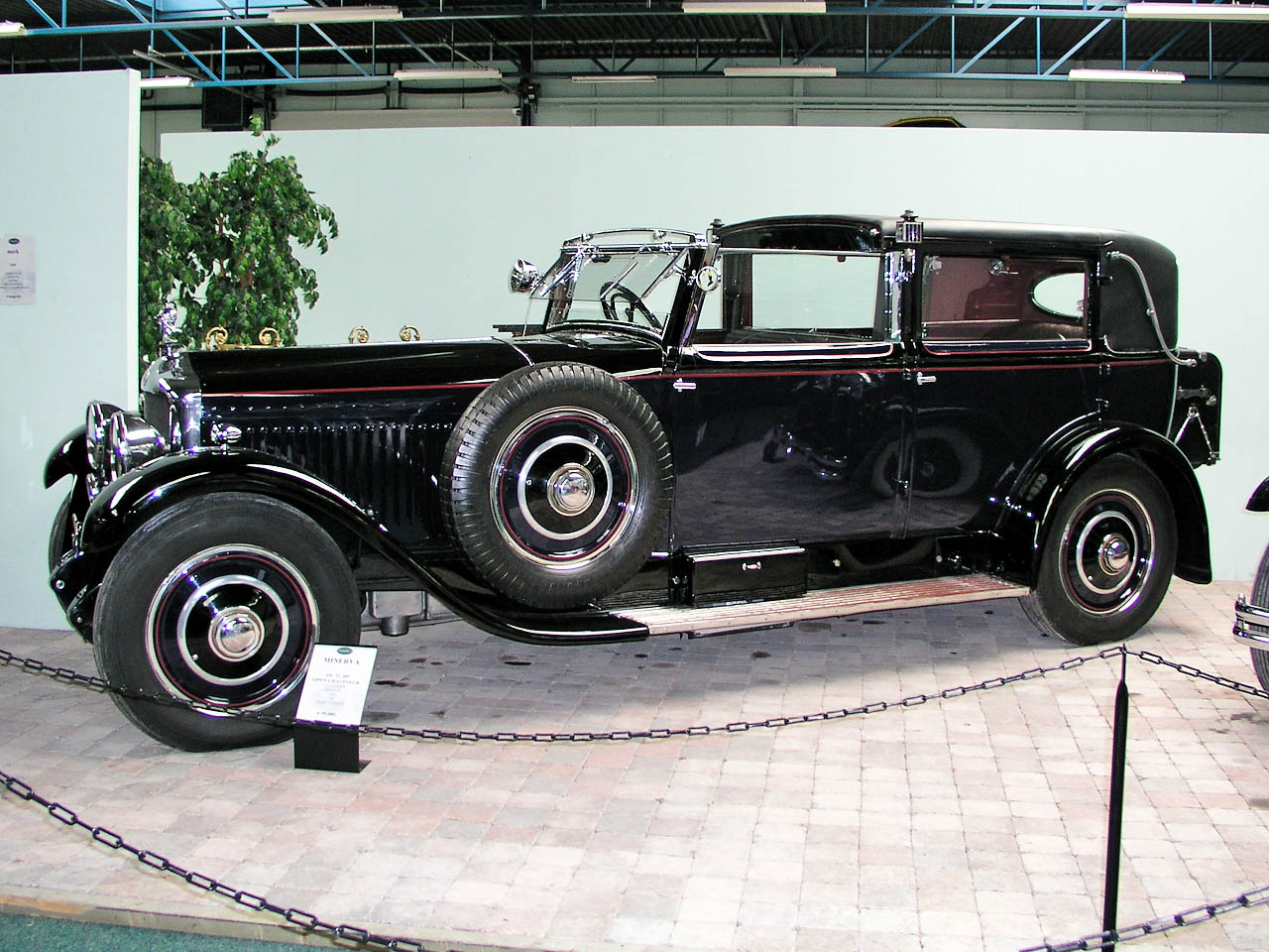 32 HP model powered by a 5952 cc 6-cylinder engine with sleeve-valves, made in Belgium by Minerva Motors SA; side view